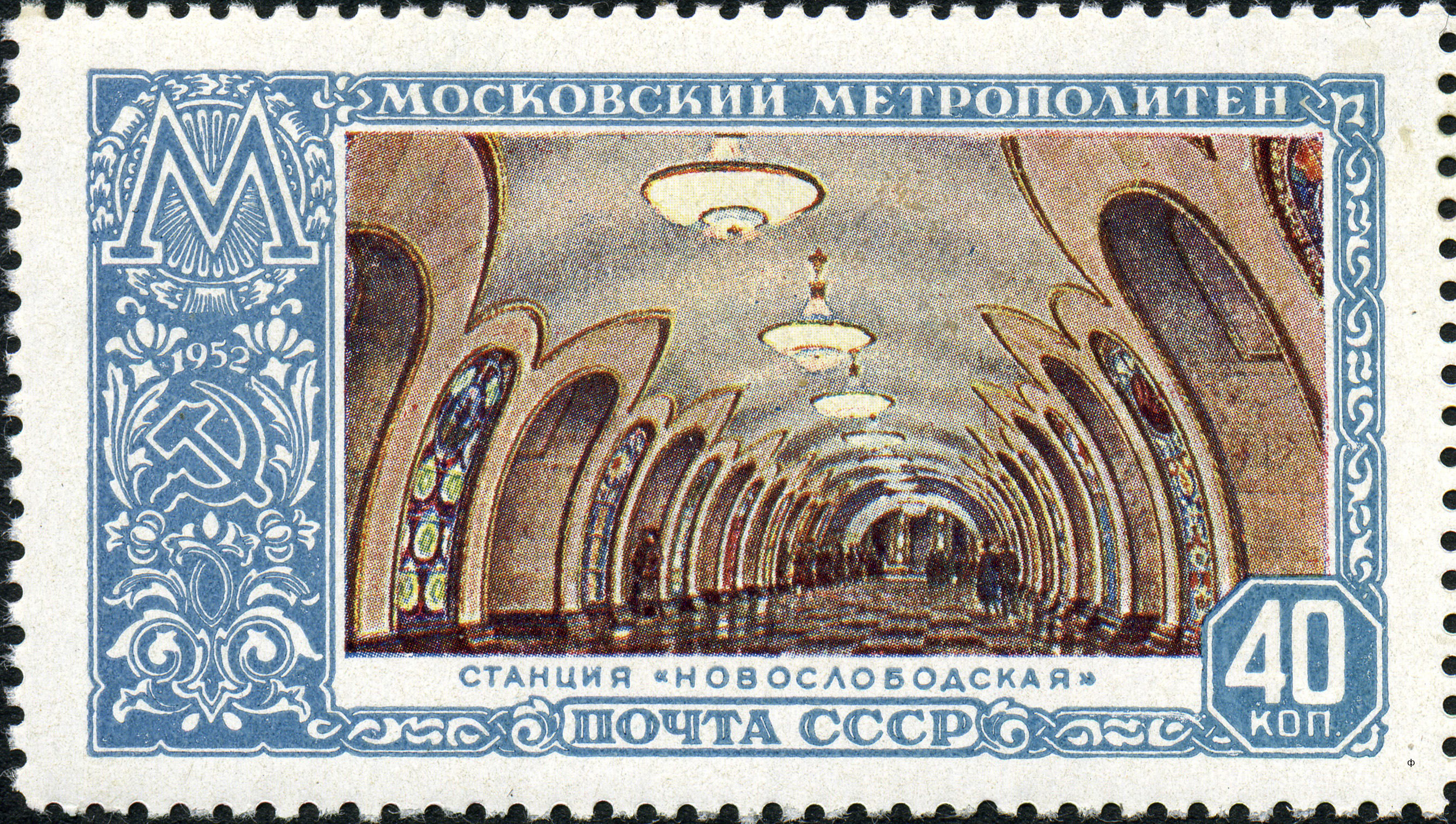 Stamp of the Soviet Union, Novoslobodskaya (Moscow Metro station), 1952, CPA #1712.